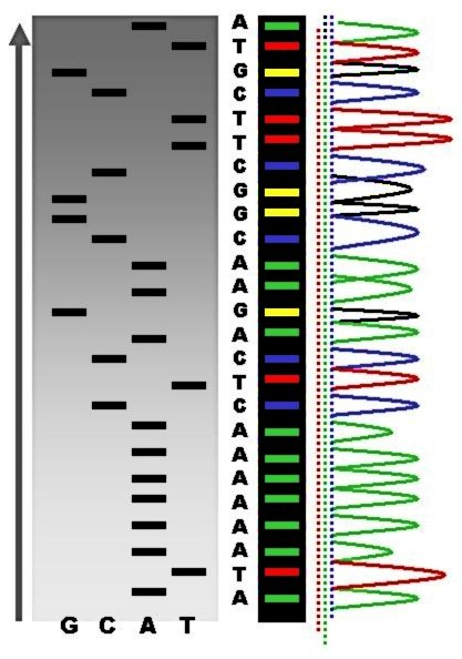 Image created by Abizar Lakdawalla - fair use.